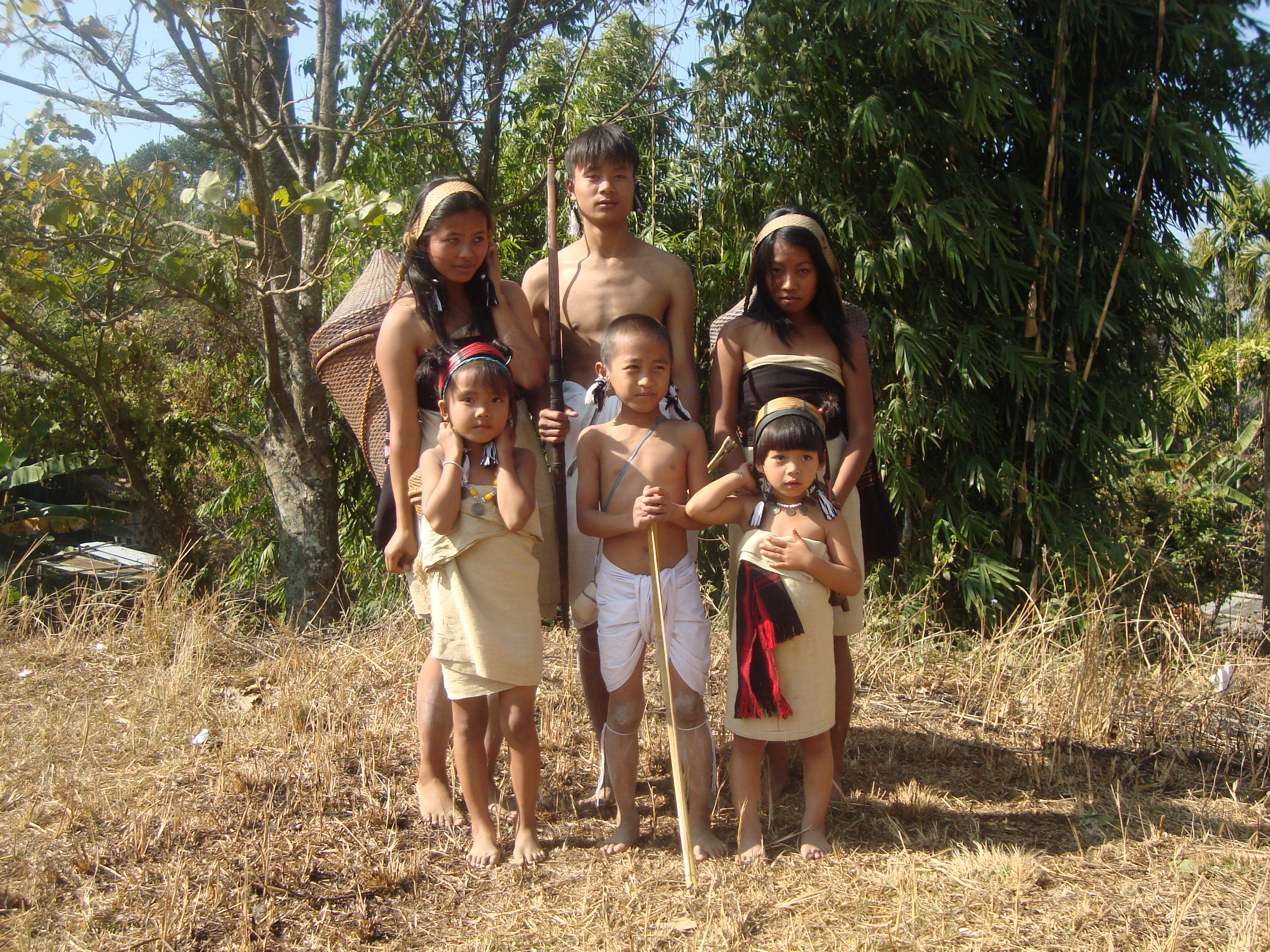 Dress worn in the early days by the Biate tribe